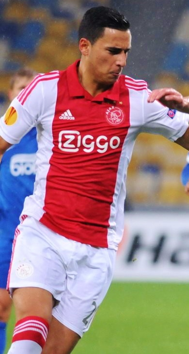 Anwar El-Ghazi